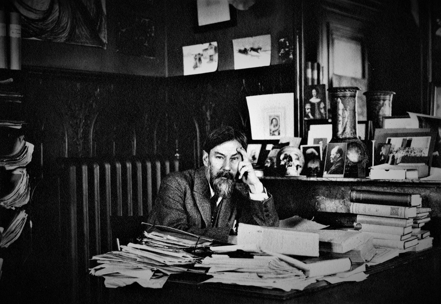 Edouard Claparède, one of the founders of the International Bureau of Education (IBE)